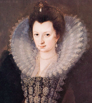 Portrait of Elizabeth de Vere, Countess of Derby (1575-1627), cropped